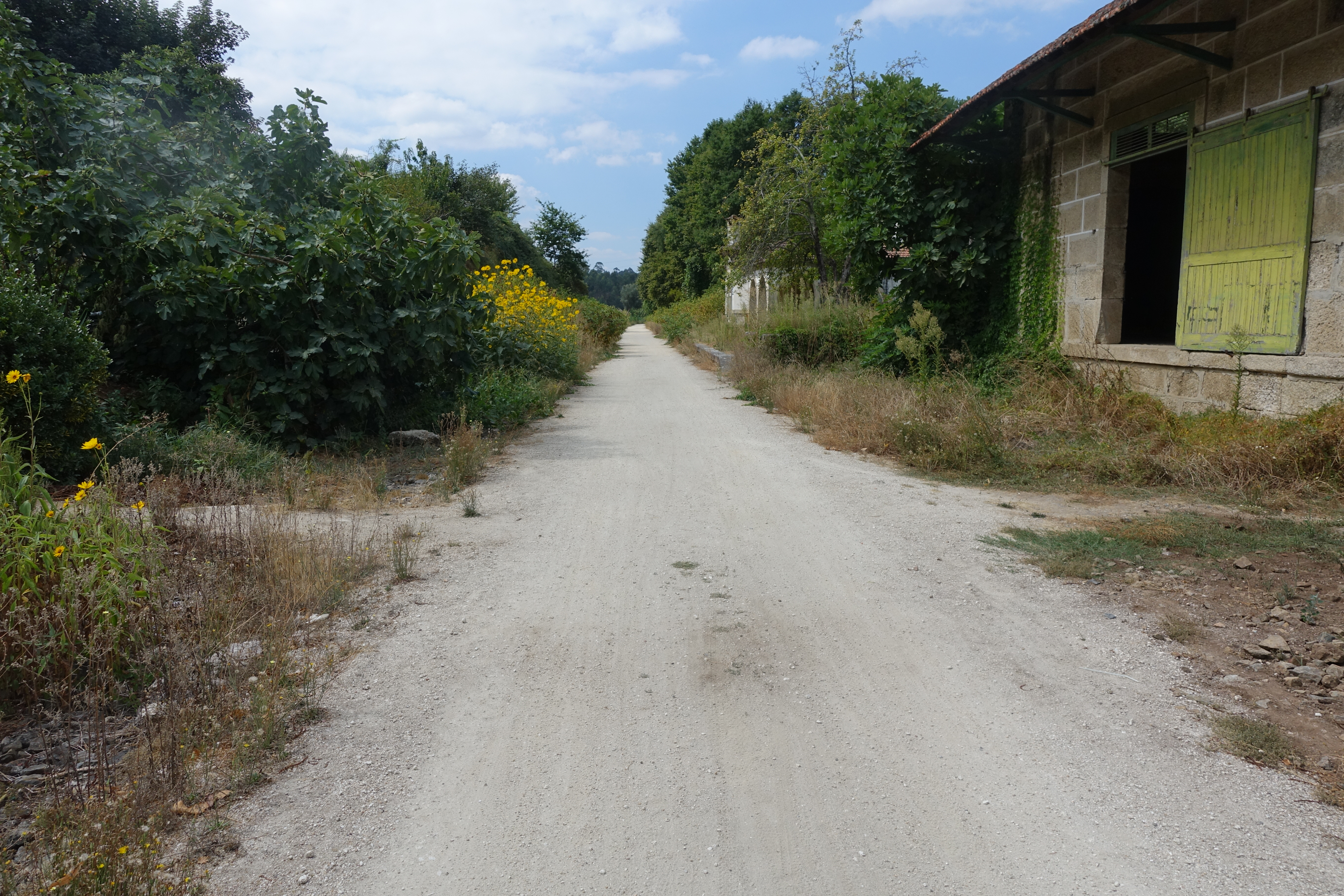 Ecopista do Tâmega, Portugal.